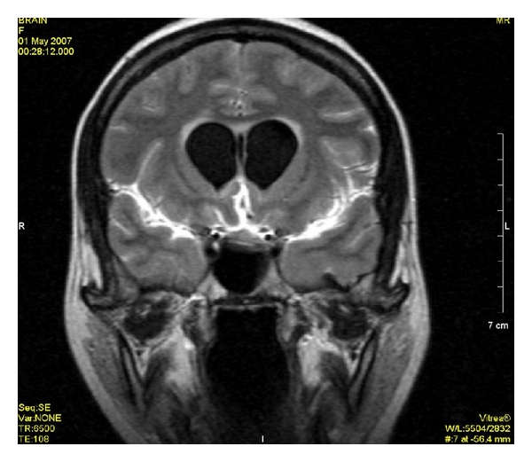 Postcontrast Fluid-attenuated inversion recovery (FLAIR) MRI of a case of meningitis. It shows the enhancement of meninges at the tentorium and in the parietal region, with evidence of dilated ventricles.